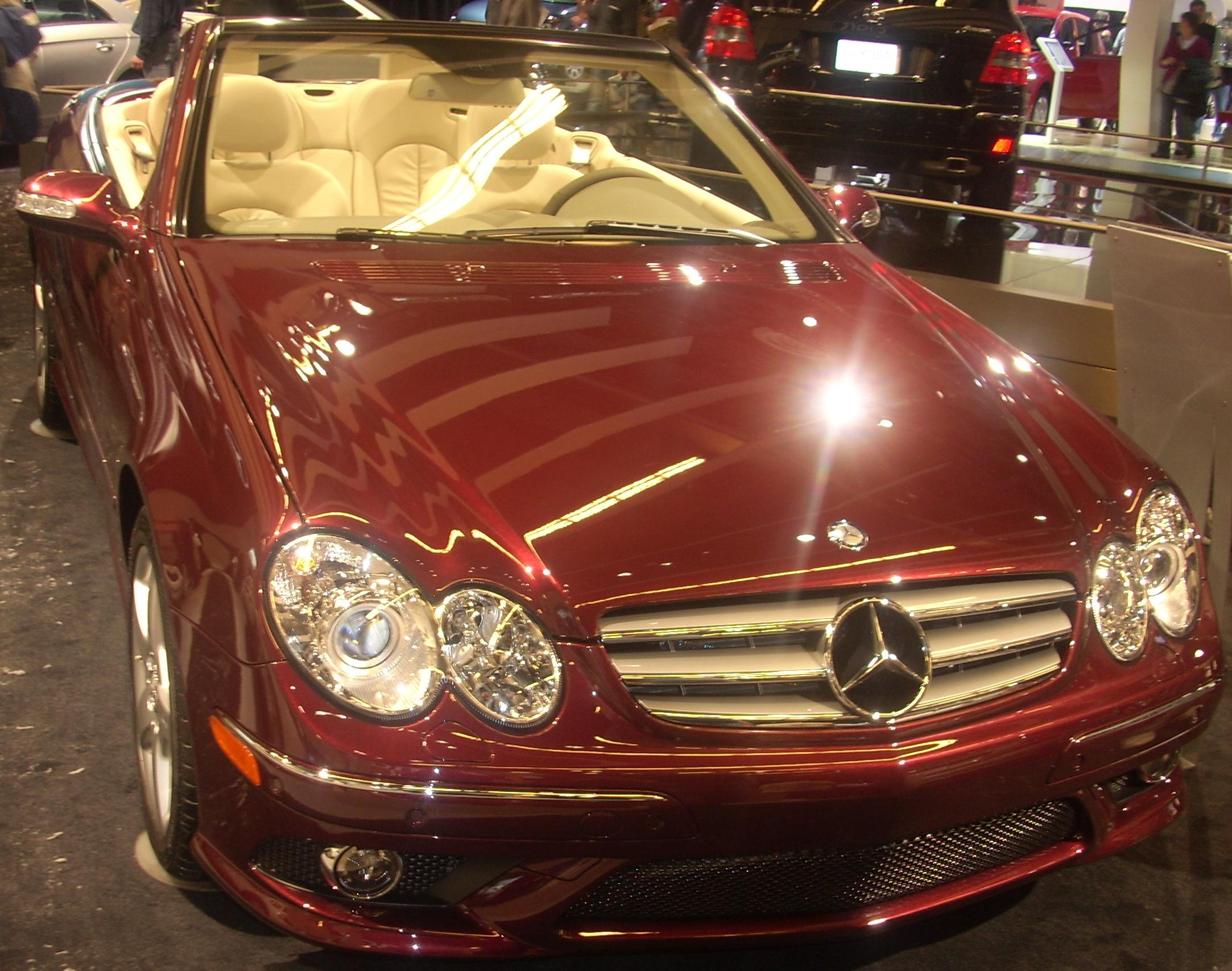 2009 Mercedes-Benz CLK350 photographed at the 2009 Montreal International Auto Show